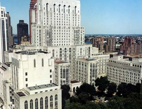 New York Hospital, New York Weill Cornell Medical Center